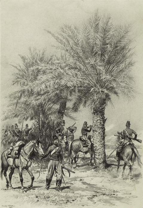 Chasseurs d'Afrique (1842). This illustration appeared in L'Armee Française by Jules Richard, illustrated by Édouard Detaille, first published in 1885.